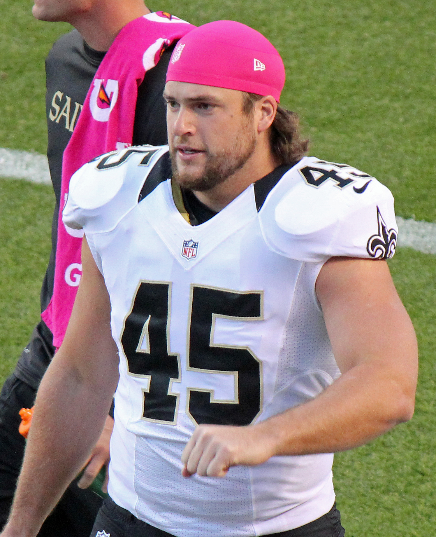 Jed Collins, a player on the National Football League.